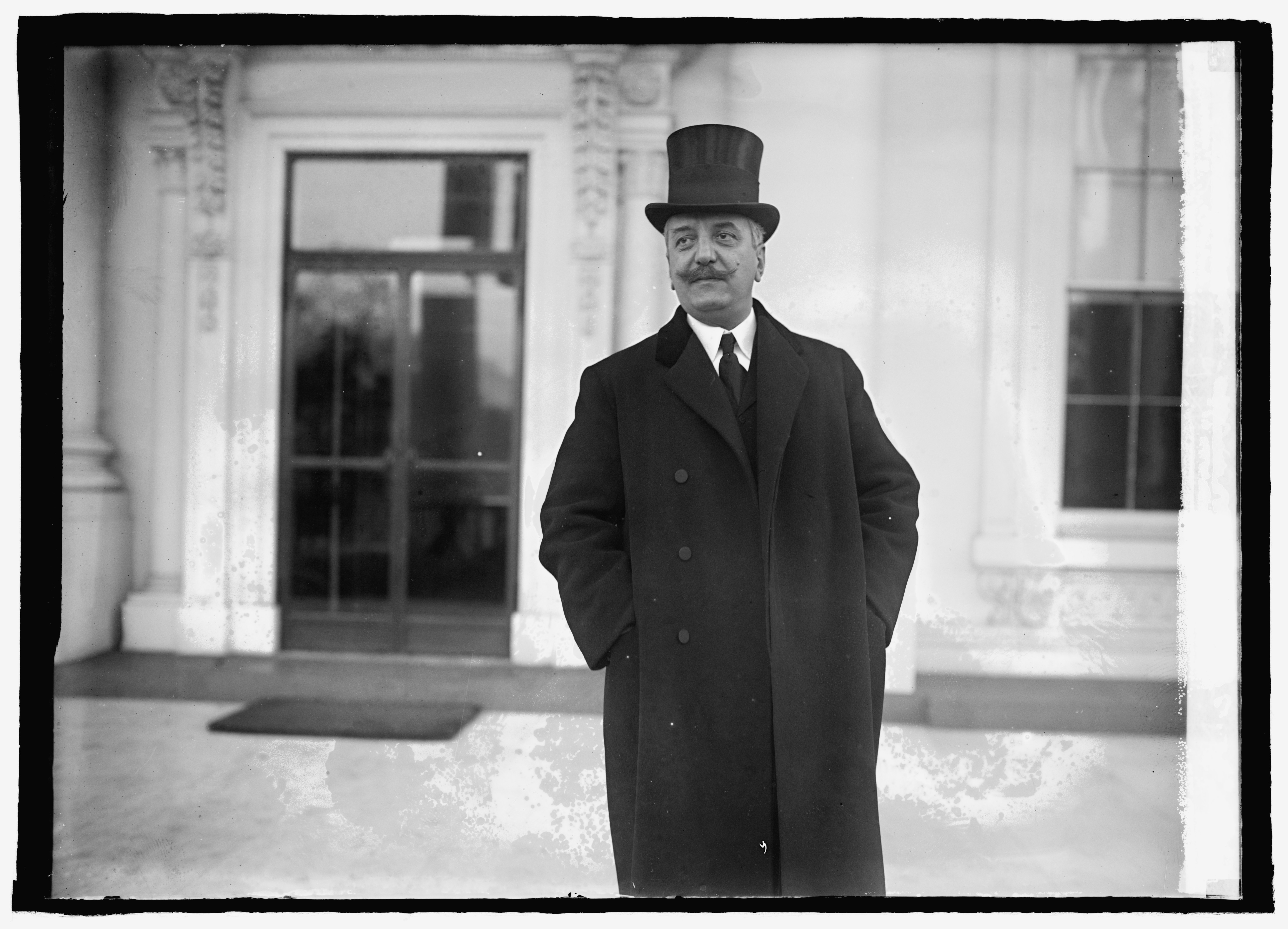 Title: Minister G. Simopoulos at W.H. [i.e., White House, Washington, D.C., 12/12/24] Abstract/medium: 1 negative : glass ; 5 x 7 in. or smaller